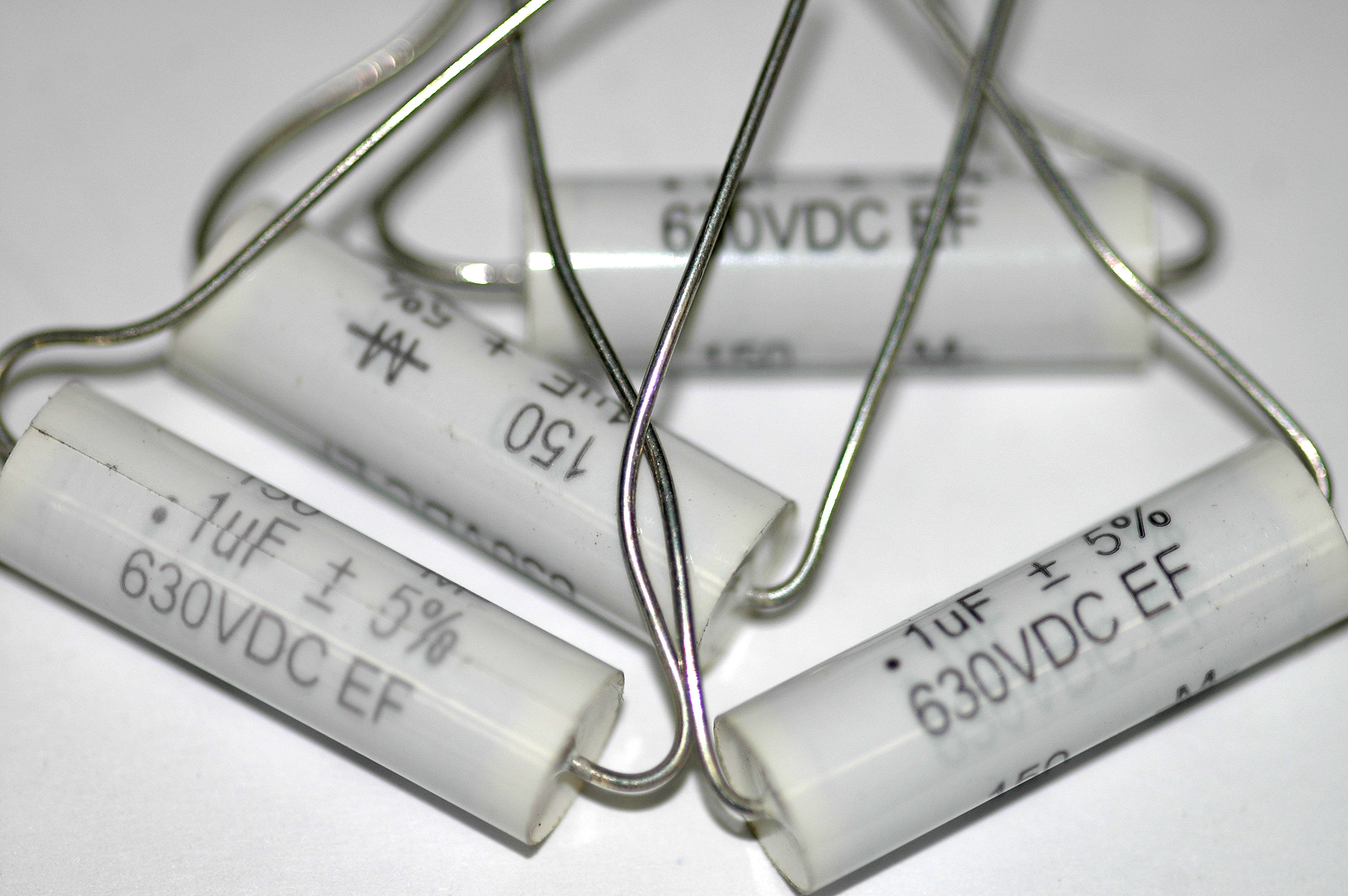 Mallory 150 100nF x 630 VDC rated capacitors, very commonly found in audio amplifiers functioning as coupling capacitors in between amplification stages.